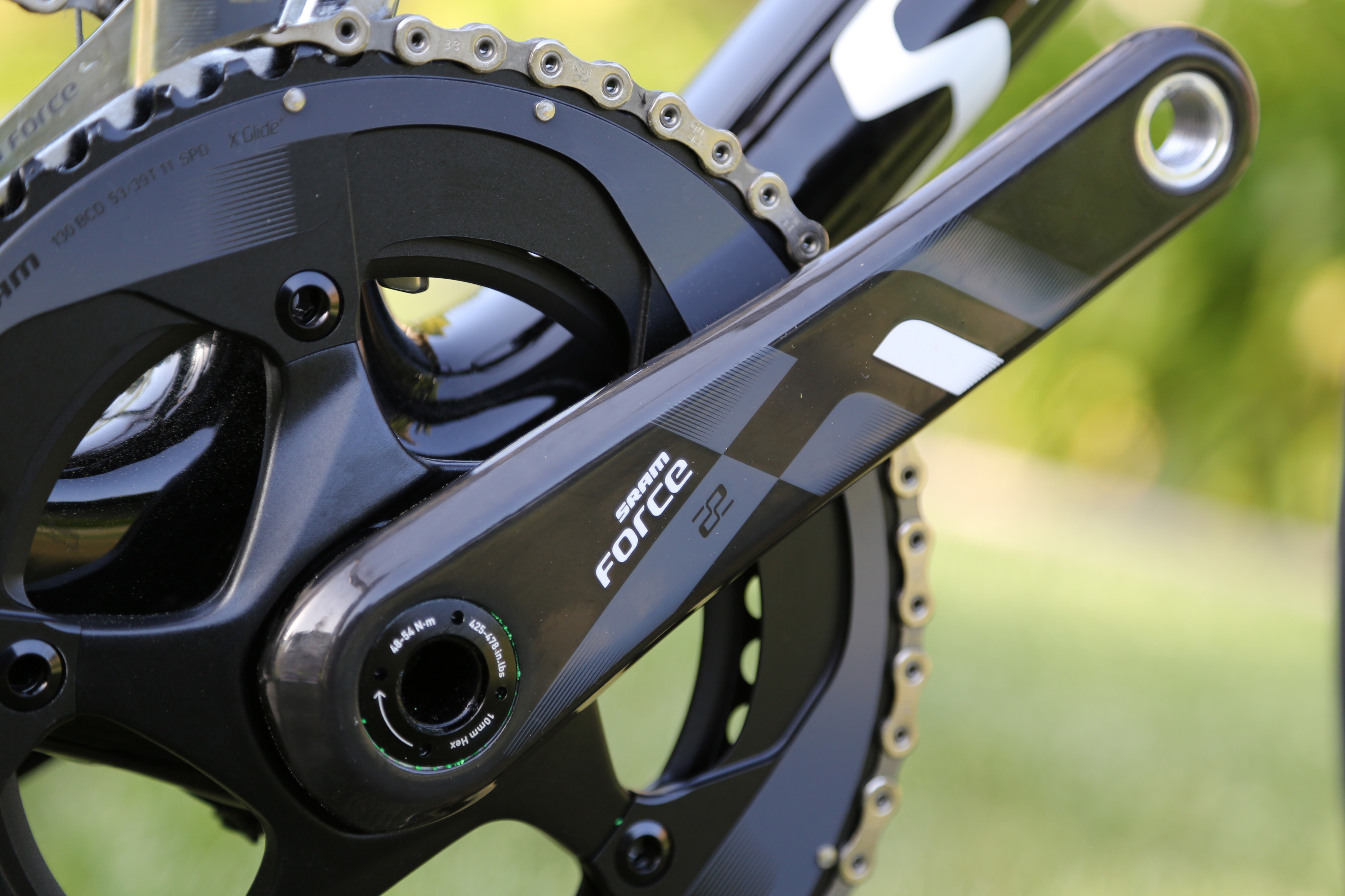 SRAM Force 22 11 Speed Crank